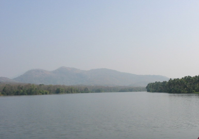 I took this photograph. Periyar river here is seen at Bhoothathankettu near Kothamangalam in Ernakulam district.